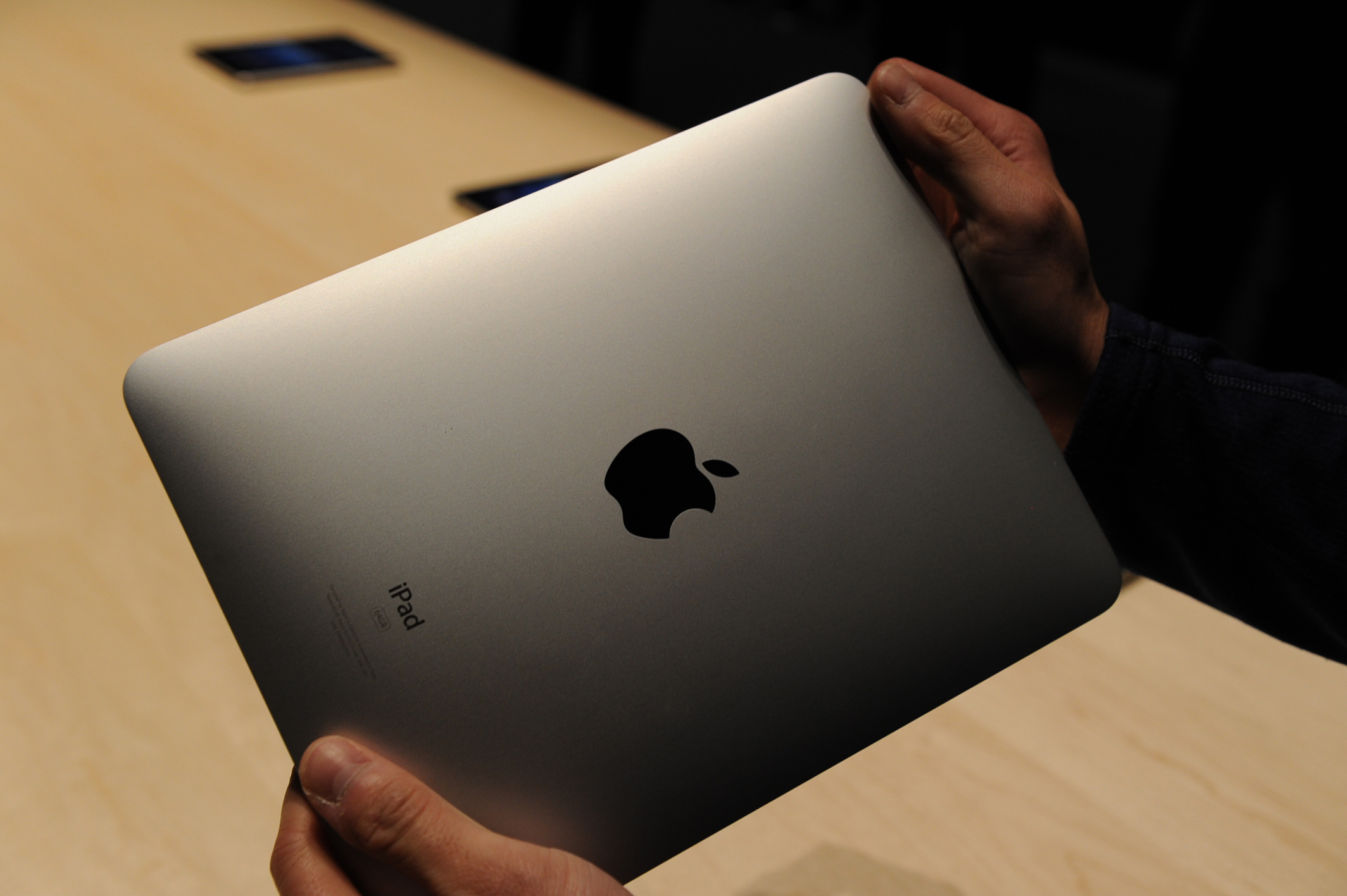 The brushed aluminum back of the iPad Wi-Fi